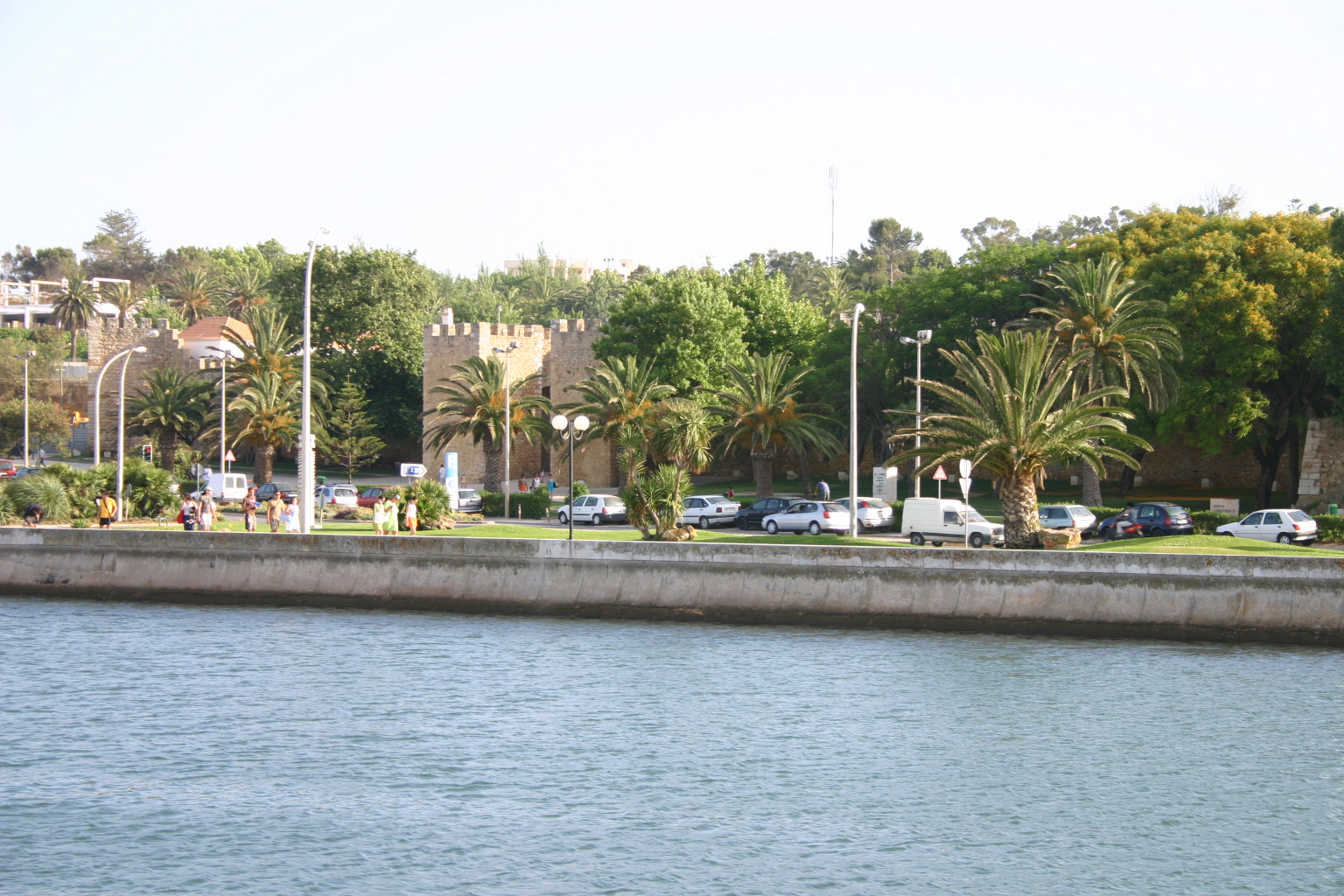 Author: António M.L. Cabral; Copy permited if the name of the author is included.